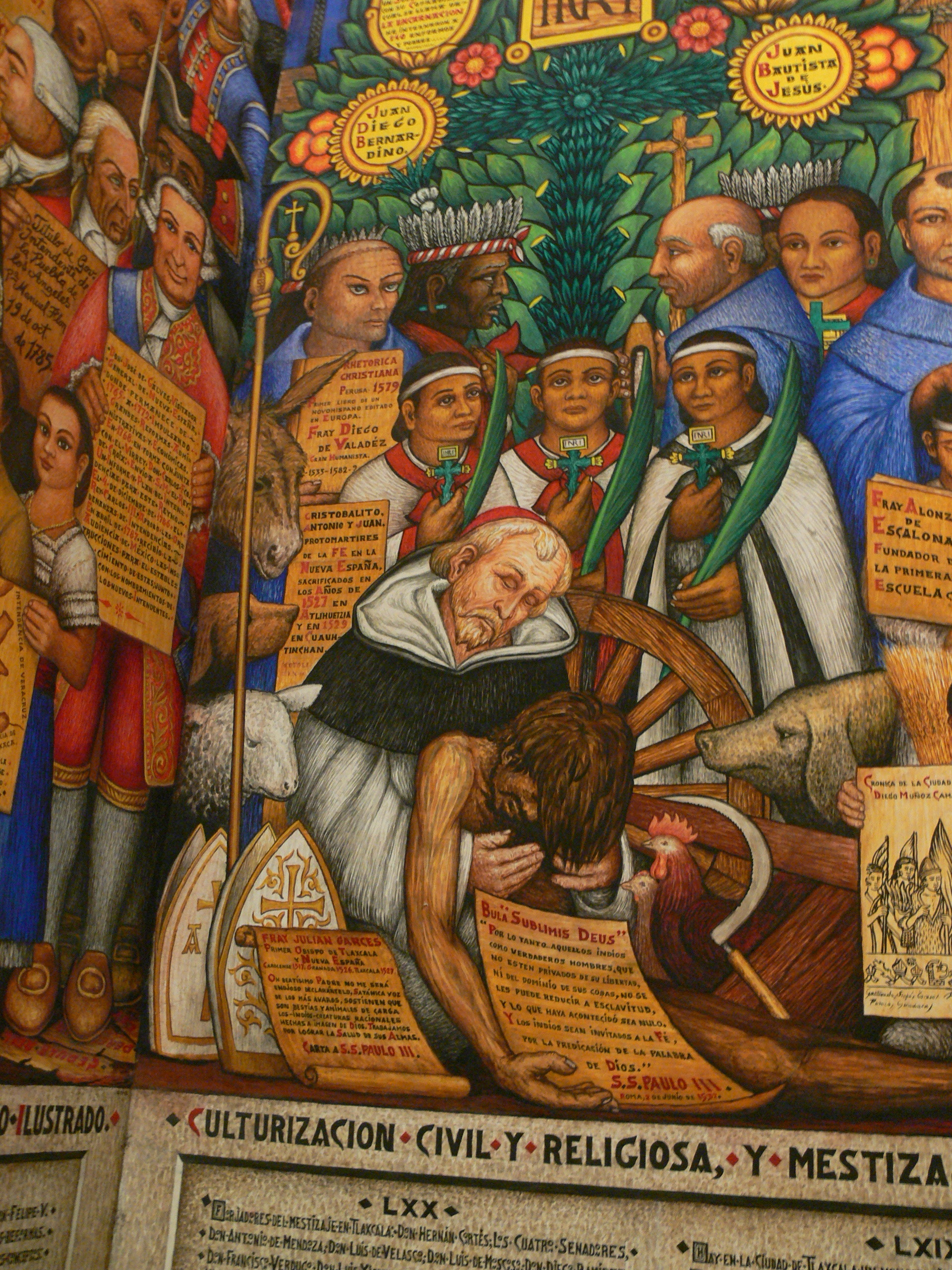 Tlaxcala city. Palacio de Gobierno: Murals - Christian religion and the indians.